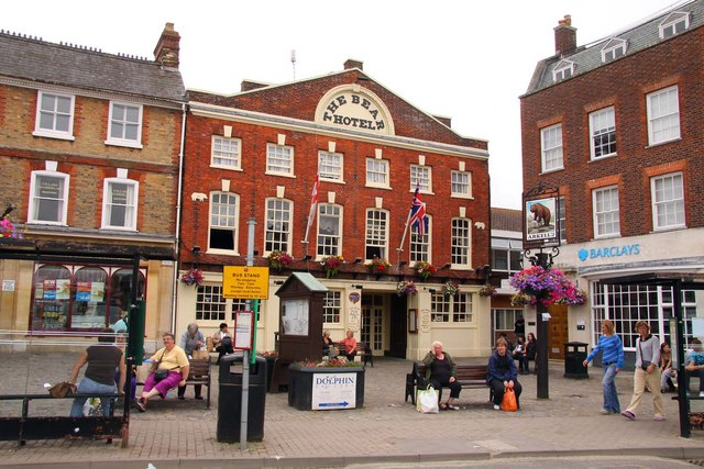 The Bear Hotel in Wantage